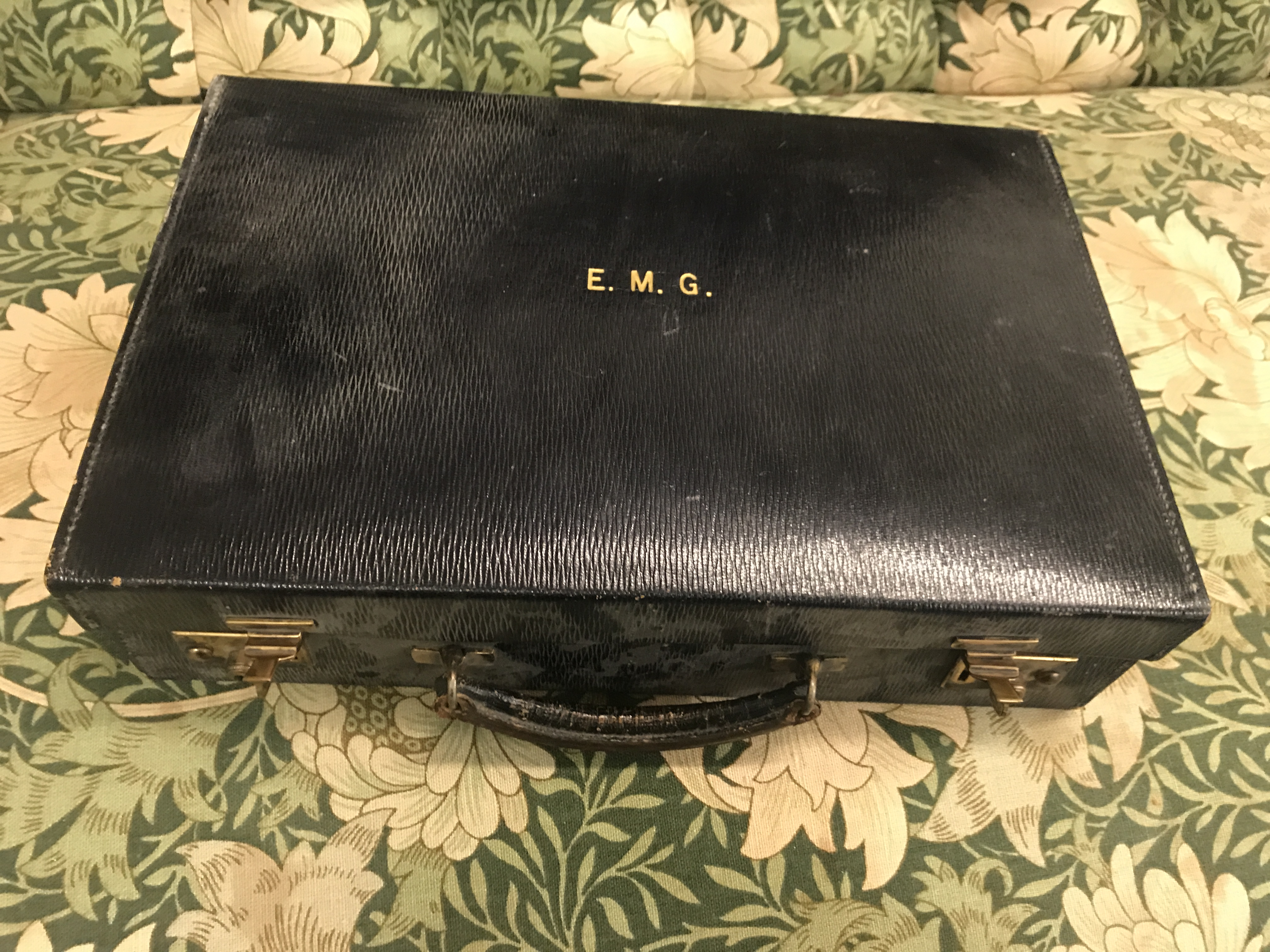 Briefcase with initials for Elgiva Mary Giles (1890-1970), younger daughter of Captain Charles Ackland-Allen, circa 1910. Letter case dates from circa 1910-1920.